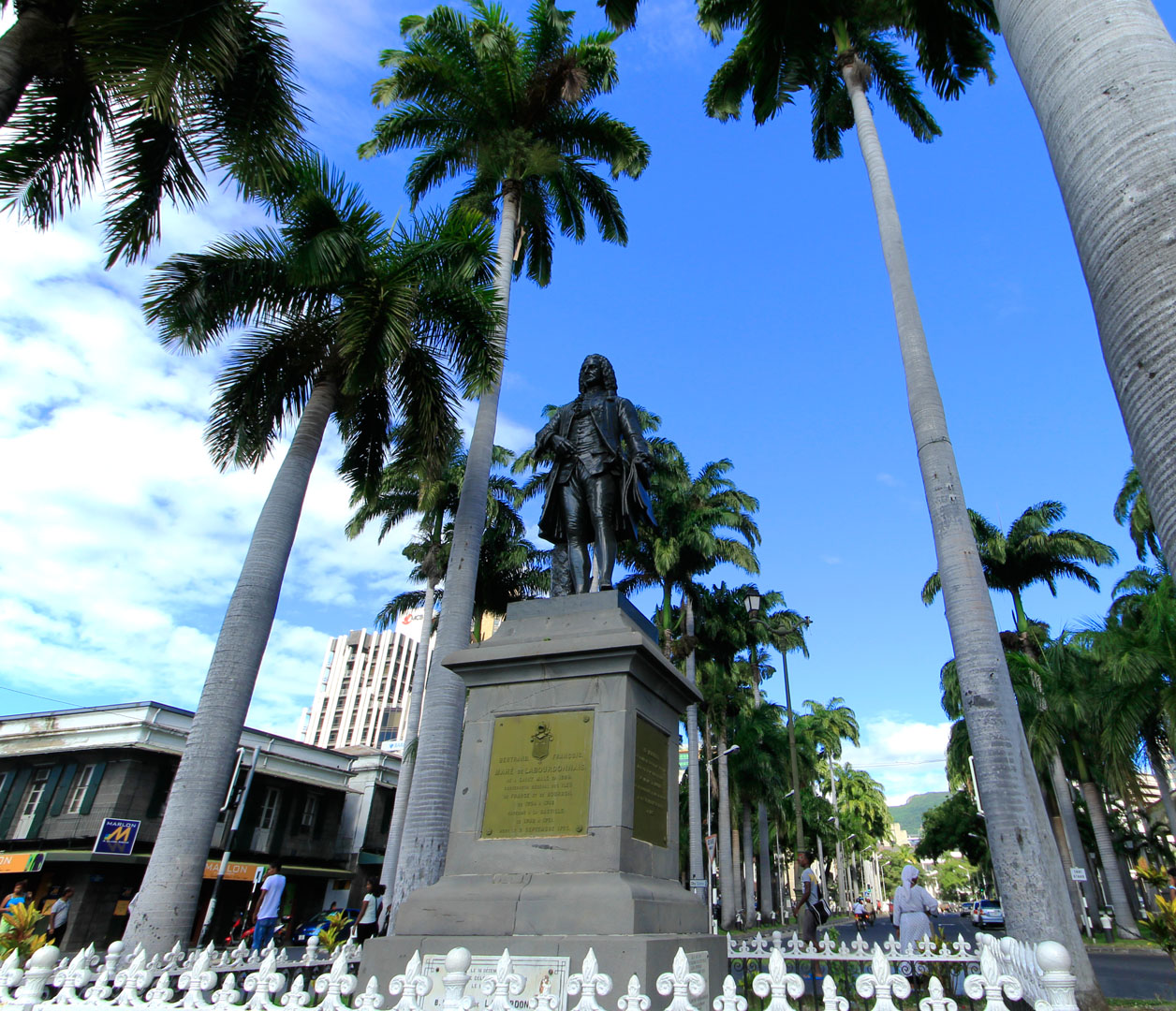 The Statue of Bertrand-François Mahé de La Bourdonnais at Place D'armes, Port Louis, Mauritius.